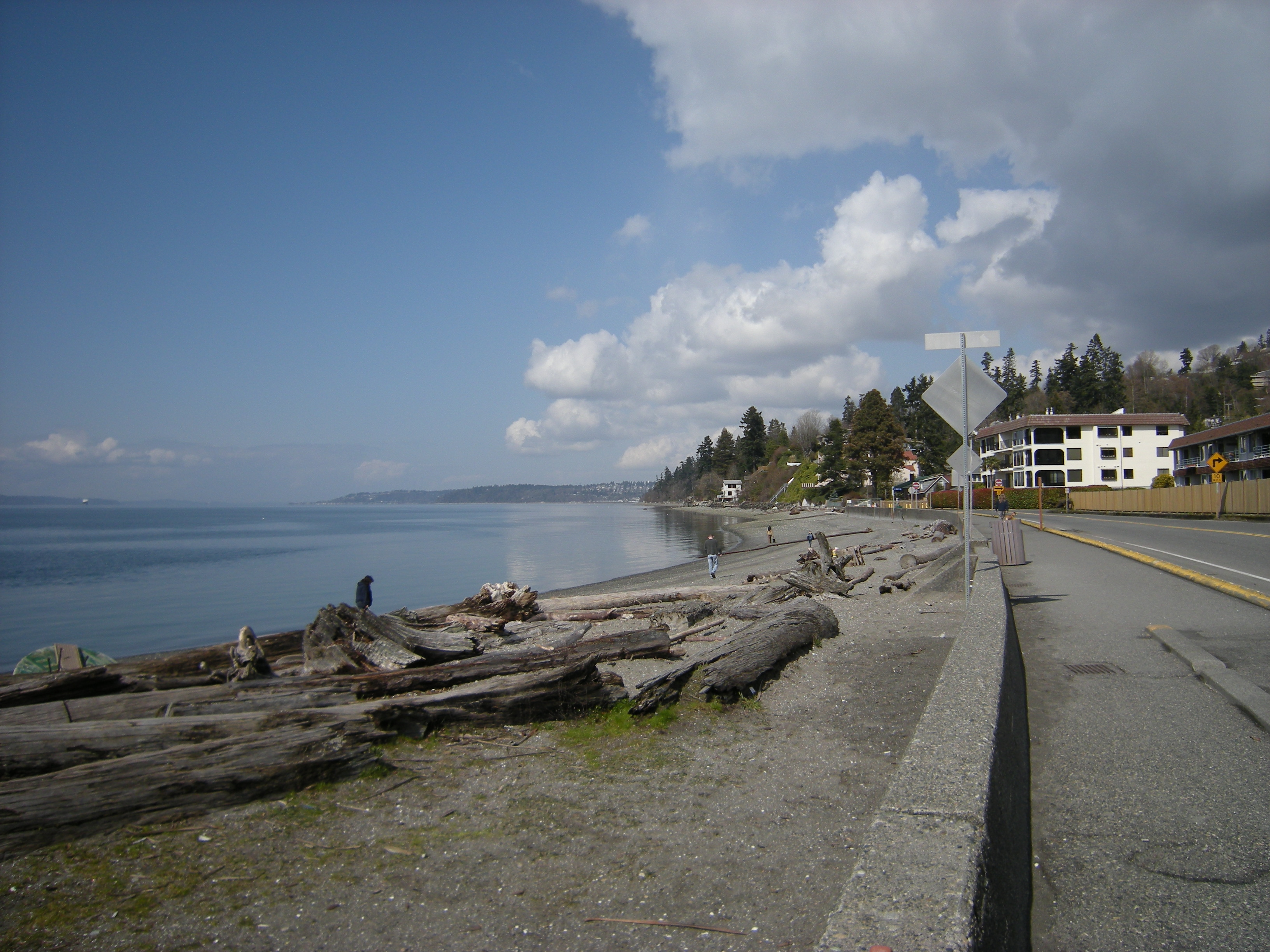 Redondo Beach, Des Moines, Washington. Looking north along the beach from just north of Salty's restaurant.